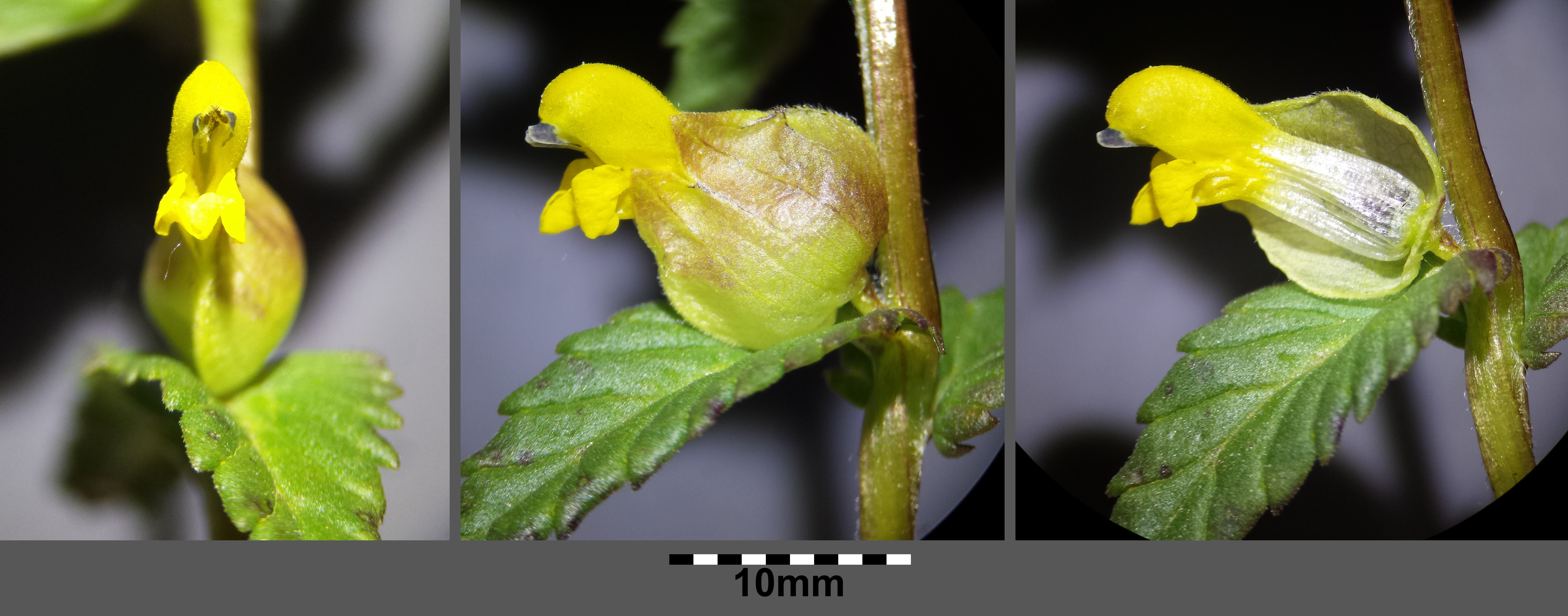 Flower, on the right calyx removed Taxonym: Rhinanthus minor ss Fischer et al. EfÖLS 2008 ISBN 978-3-85474-187-9 Location: Schwarze Lacke, Vienna-Floridsdorf - ca. 160 m a.s.l. Habitat: dry meadows